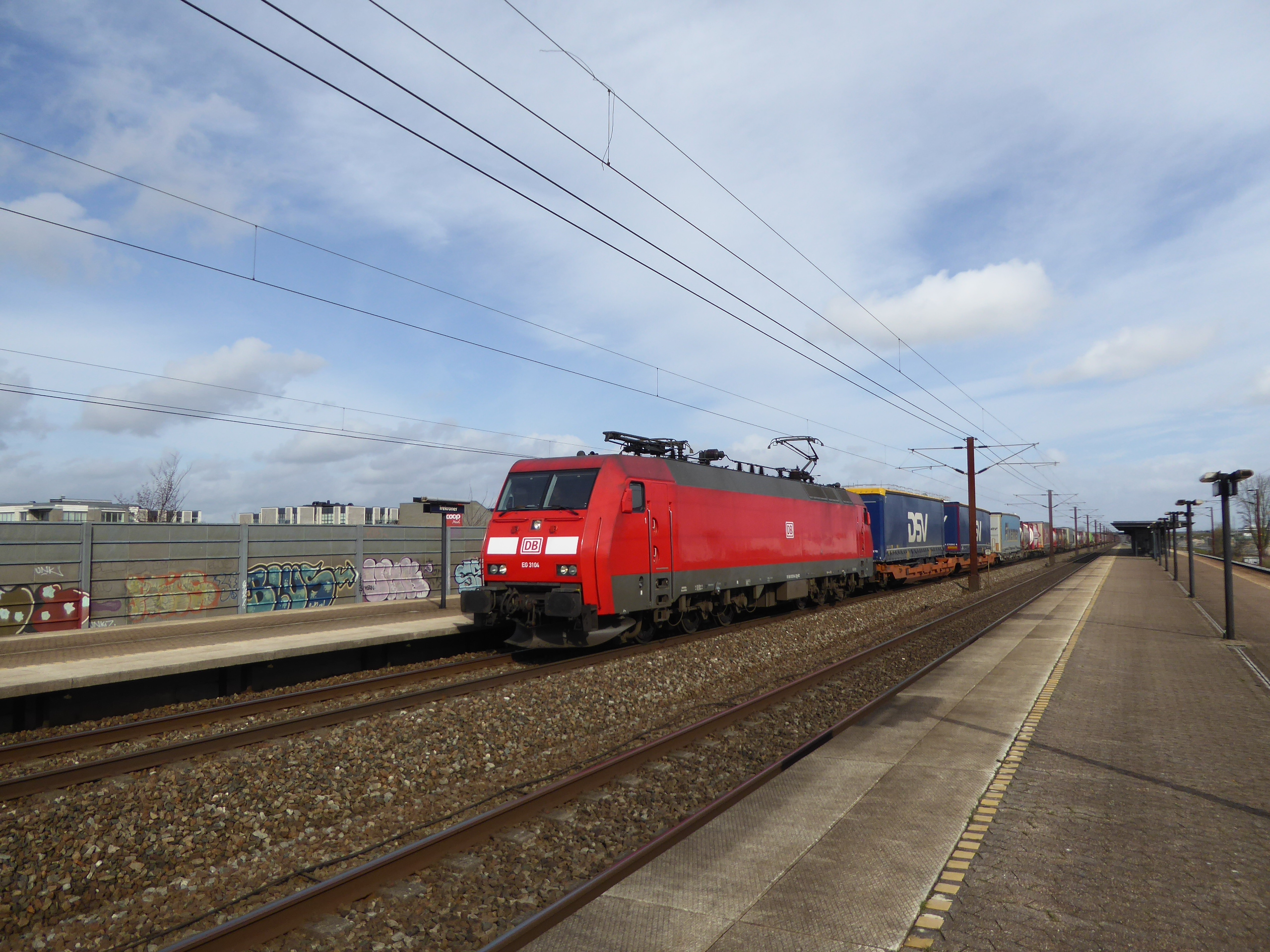 The electric locomotive EG 3104 of DB Cargo with a freight train at Trekroner Station on Vestbanen in Denmark.